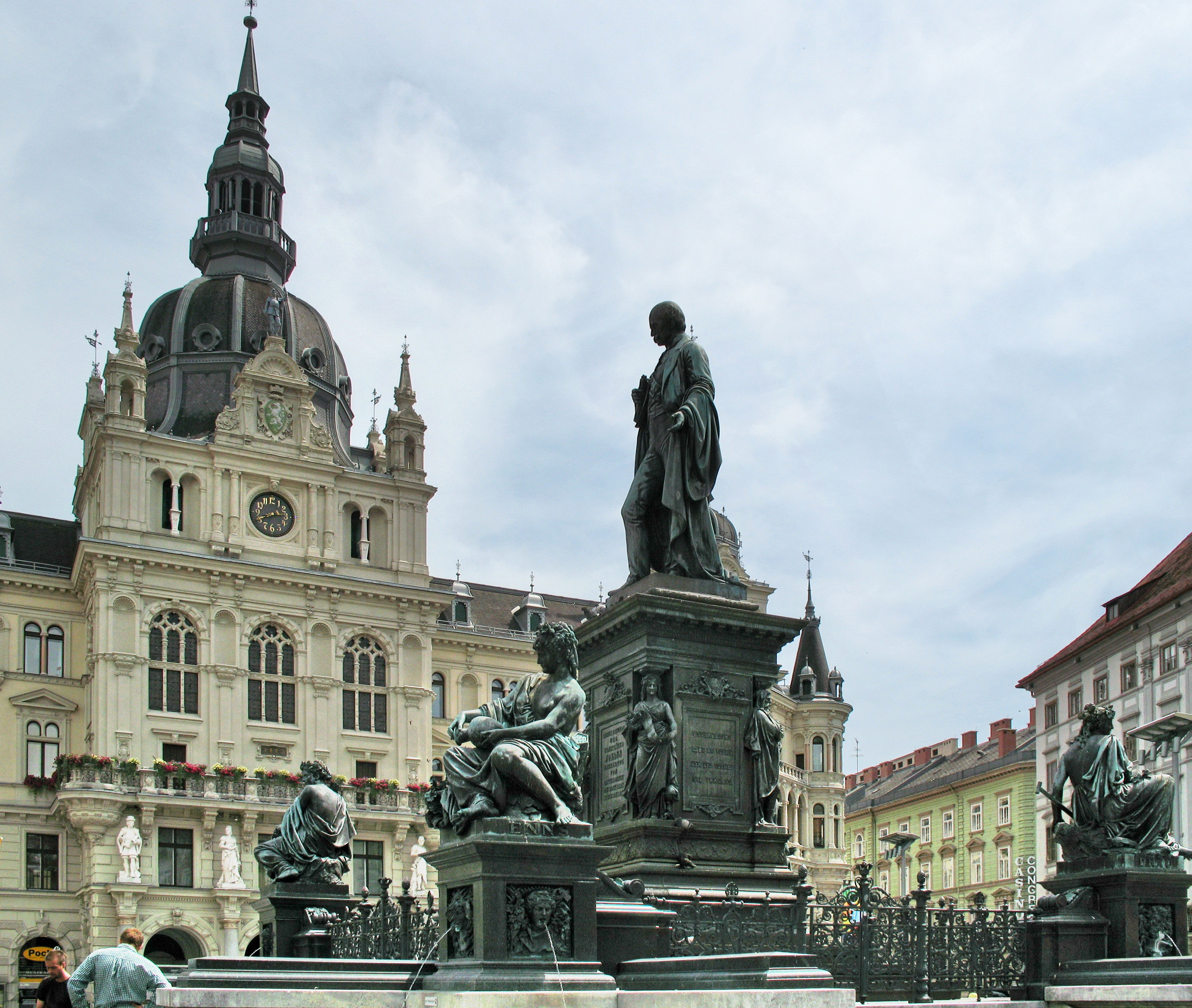 Main Plaza and City Hall, Graz, Austria